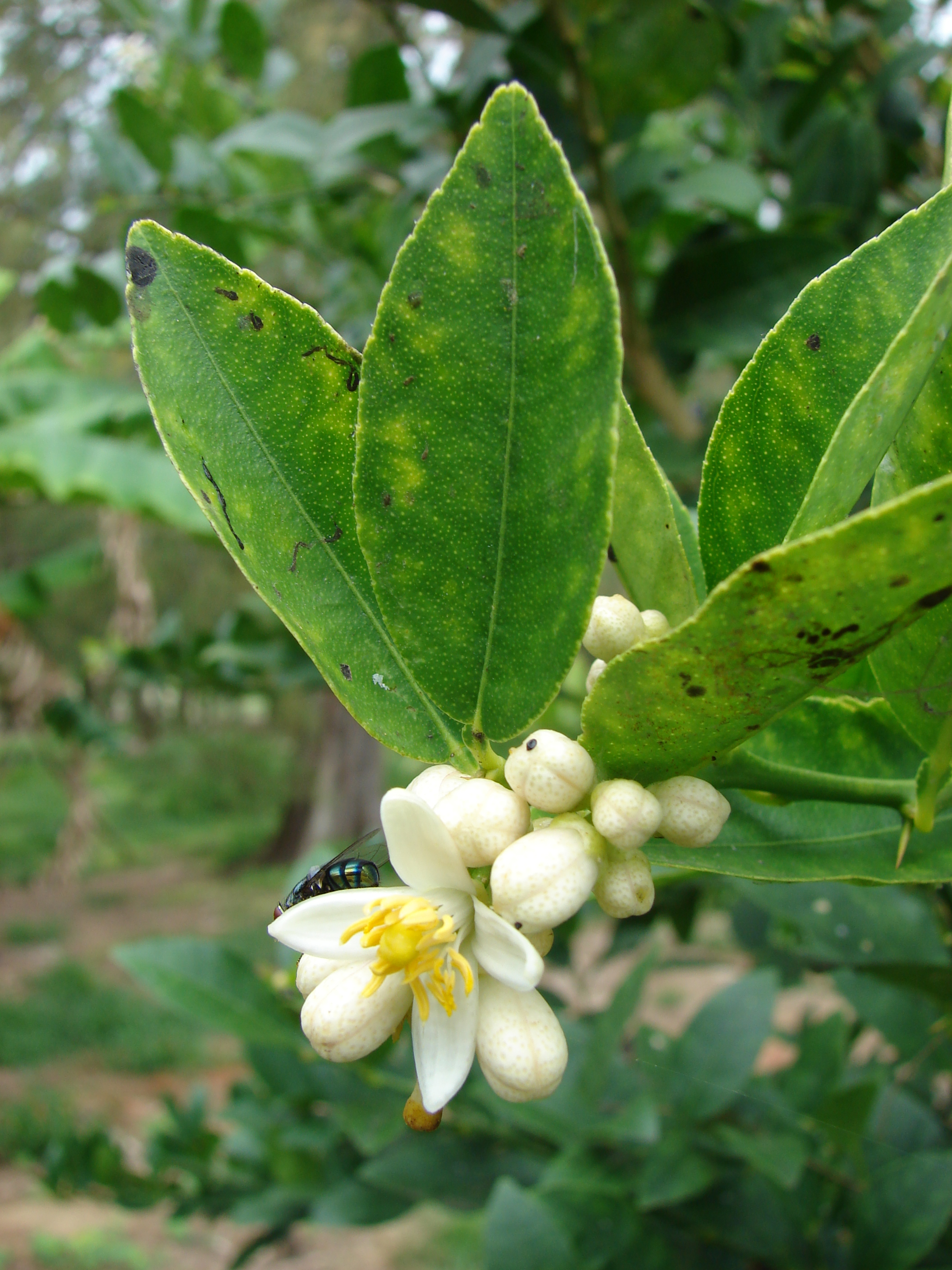 Citrus aurantiifolia (flowers and leaves). Location: Midway Atoll, Community Garden Sand Island